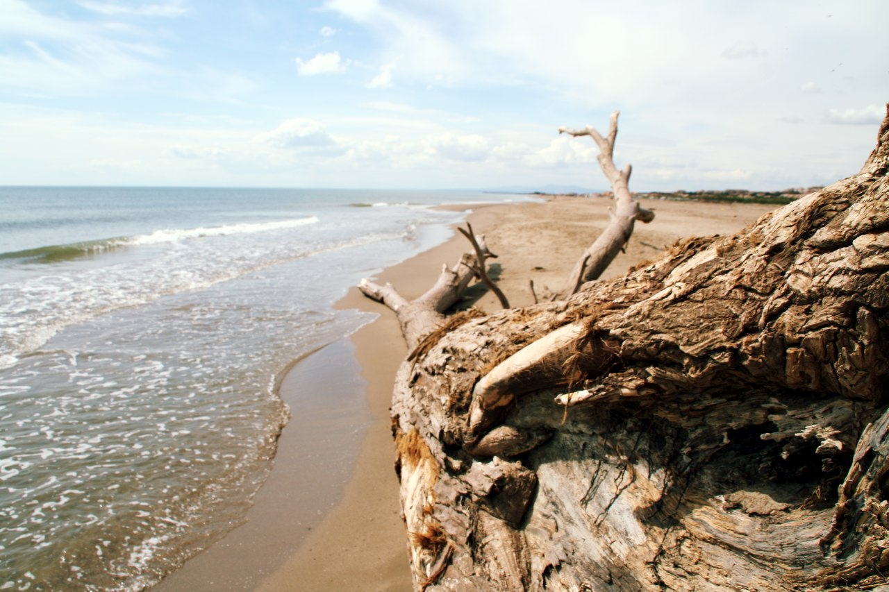 Saint-Pierre-la-Mer, beach